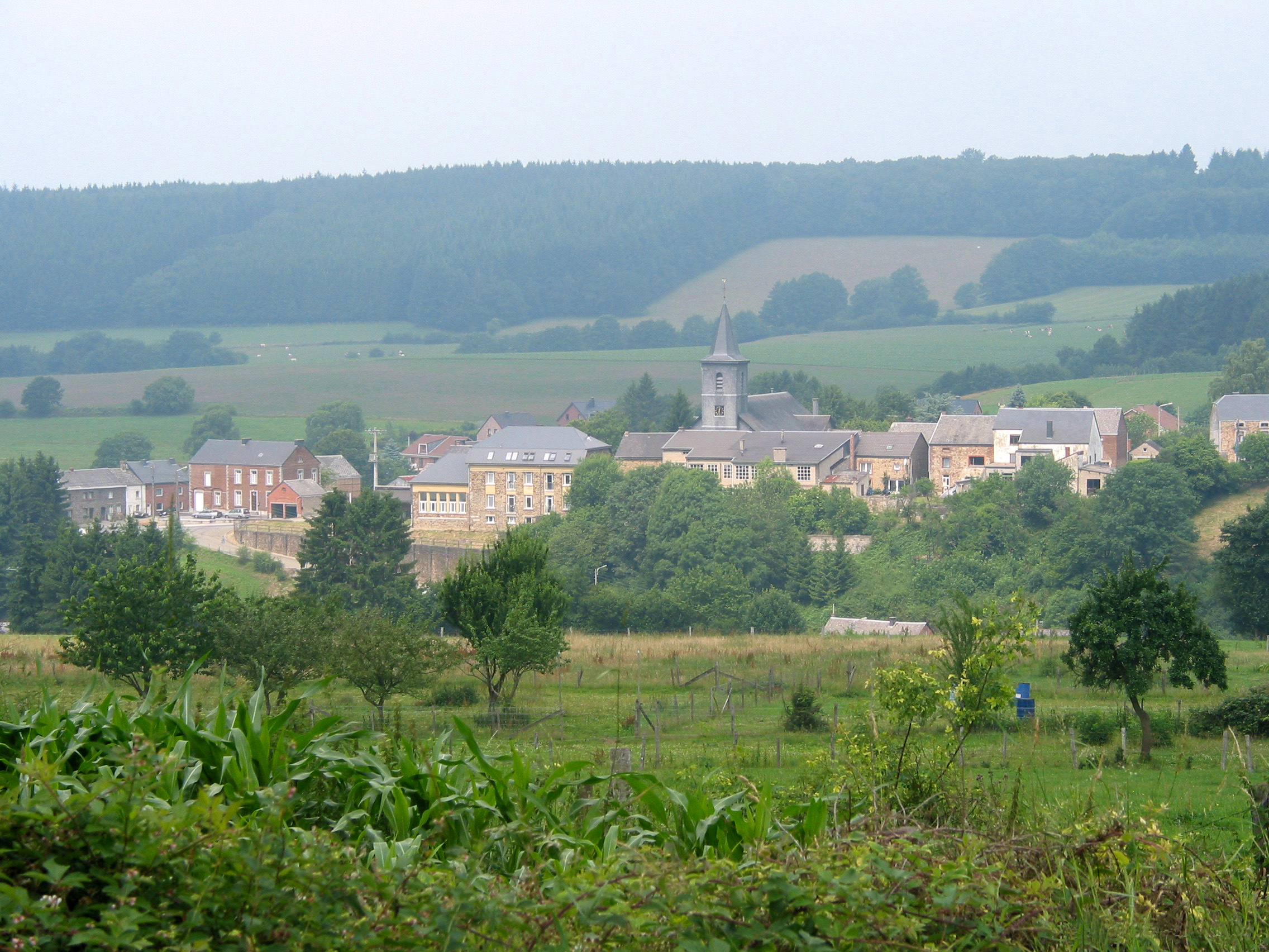 Bande (Belgium), a peaceful village.